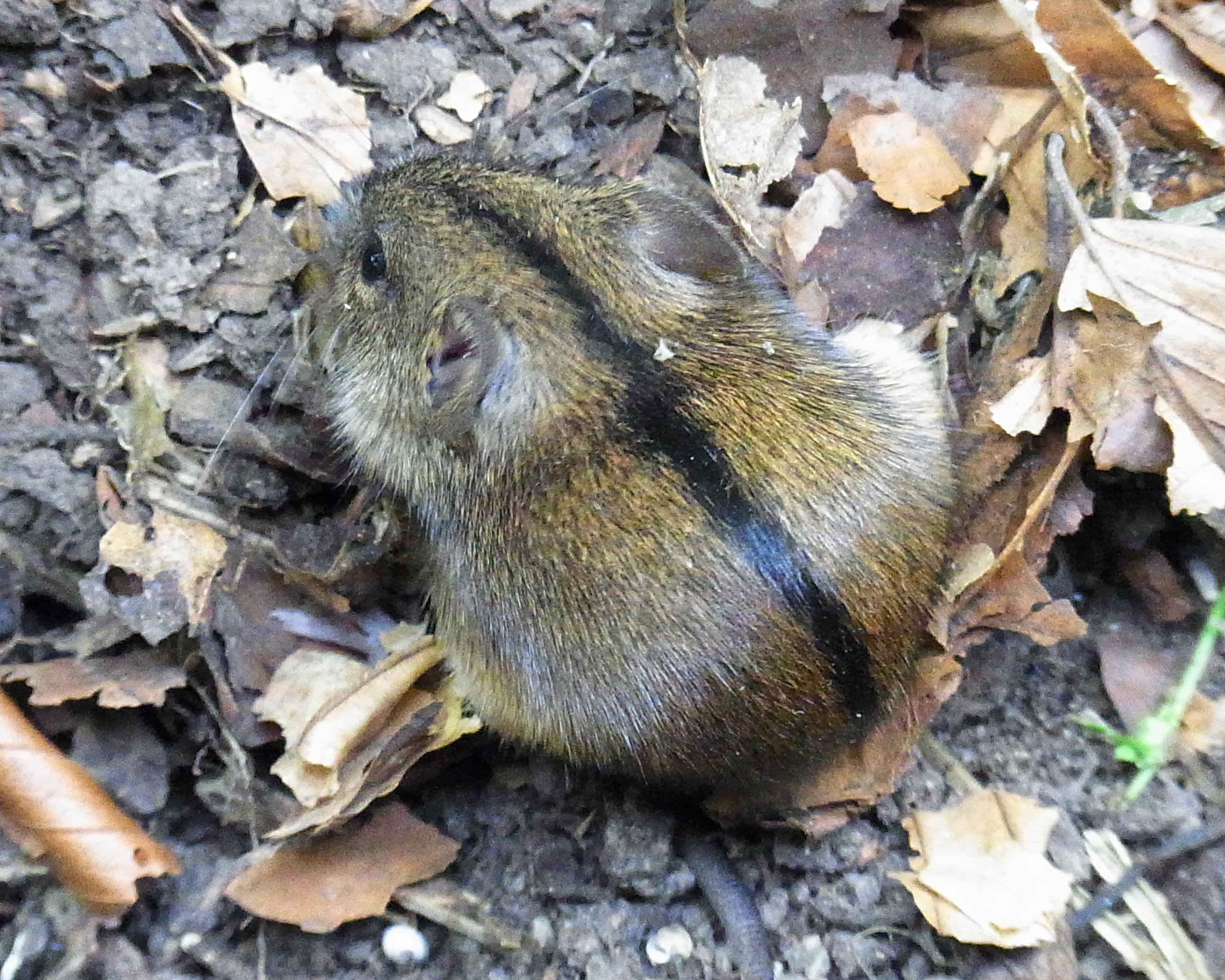 Apodemus agrarius from Hungary Bück-mountains, in nest under beech-log